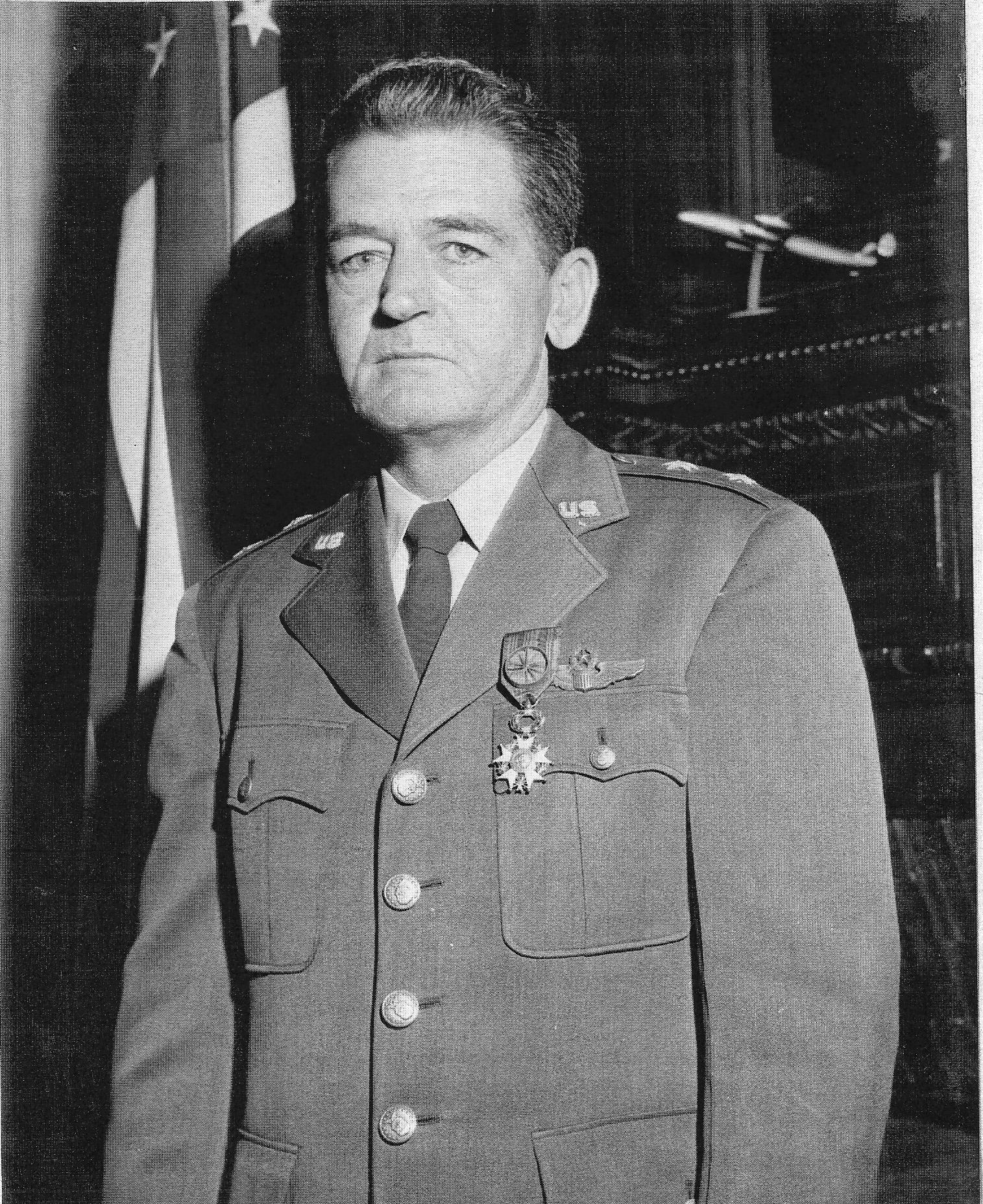 Maj. Gen John A. Samford, USAF in an official USAF photo. NARA Citation 342-B-12161-1-(P-175-4-A)